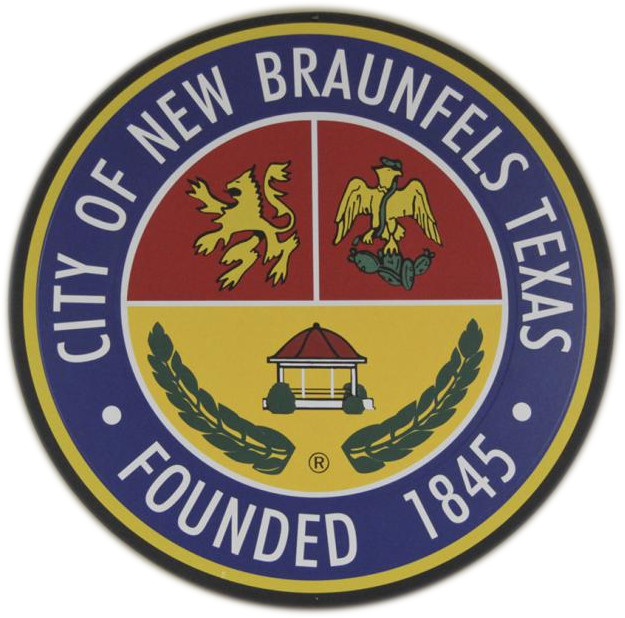 Photograph of the New Braunfels City Seal